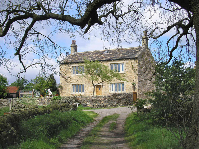 West Carlton. A recently renovated farmhouse in this hamlet near Yeadon